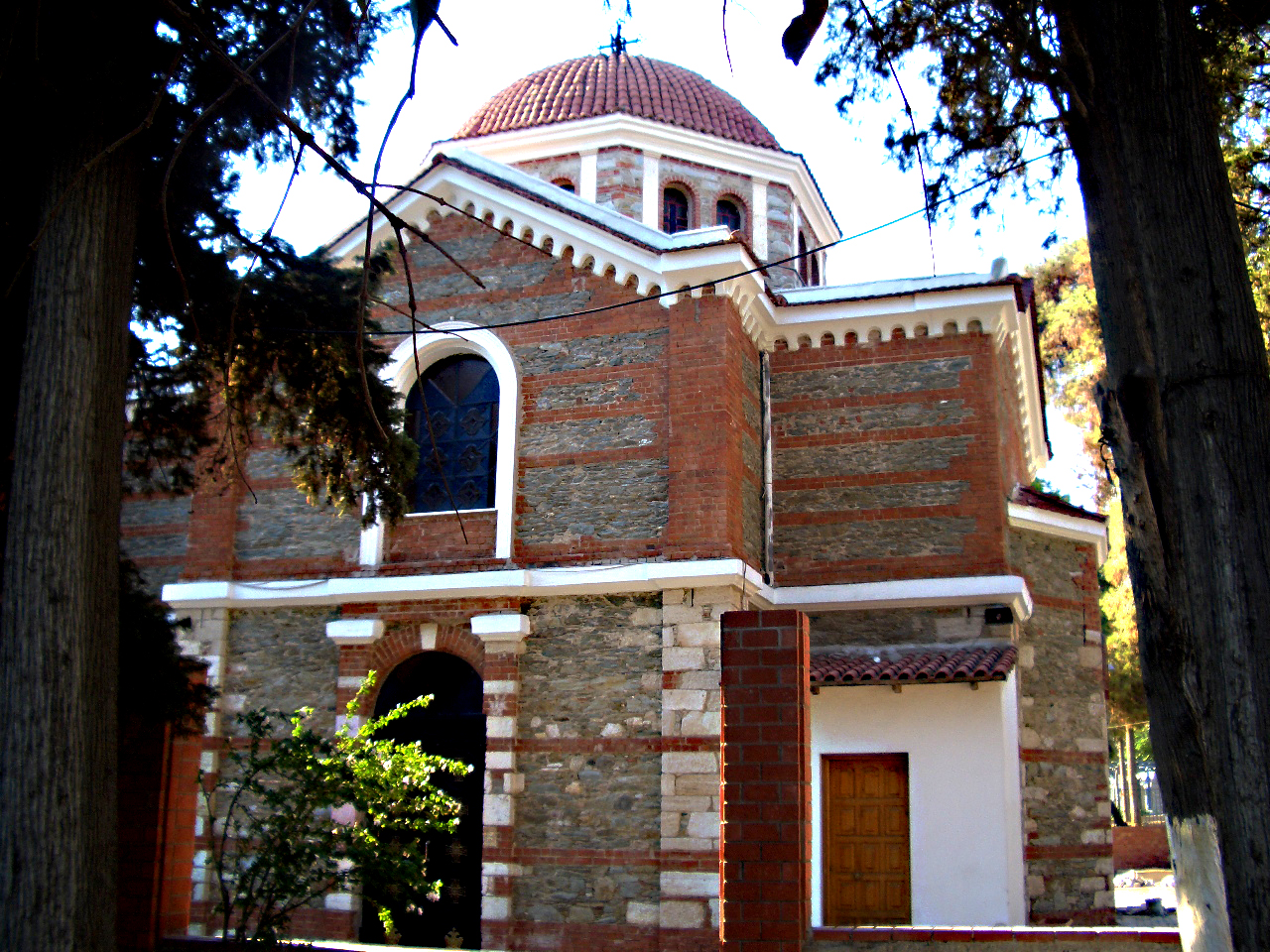 Graveyard of Saint Paraskevi, Lagada Street - Thessaloniki. View of the Church